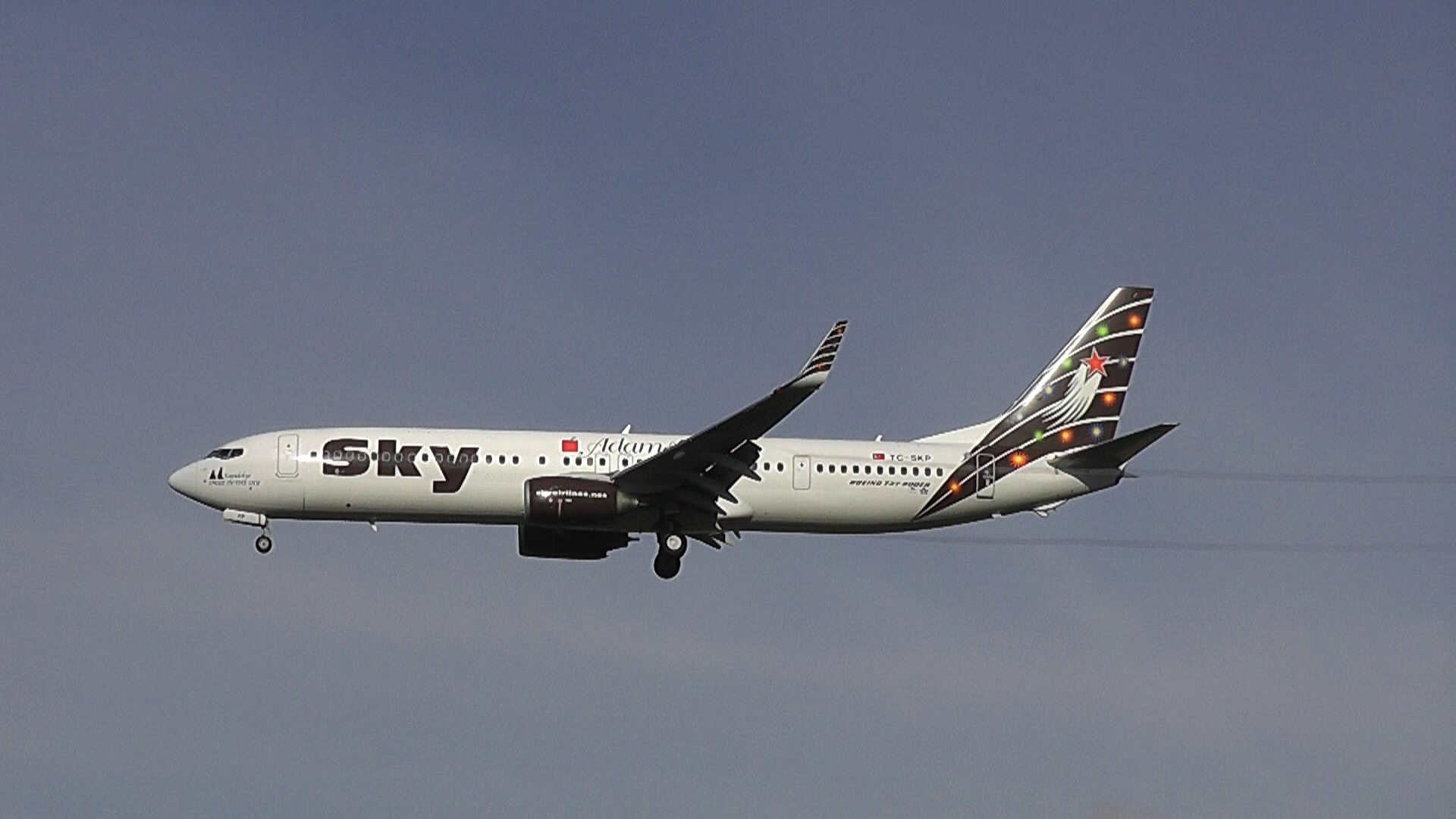 A Sky Airlines Boeing 737-900ER